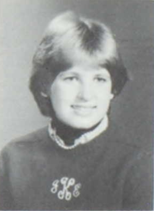 Juli Klyce in the 1983 yearbook for Thomas Worthington High School of Worthington, Ohio